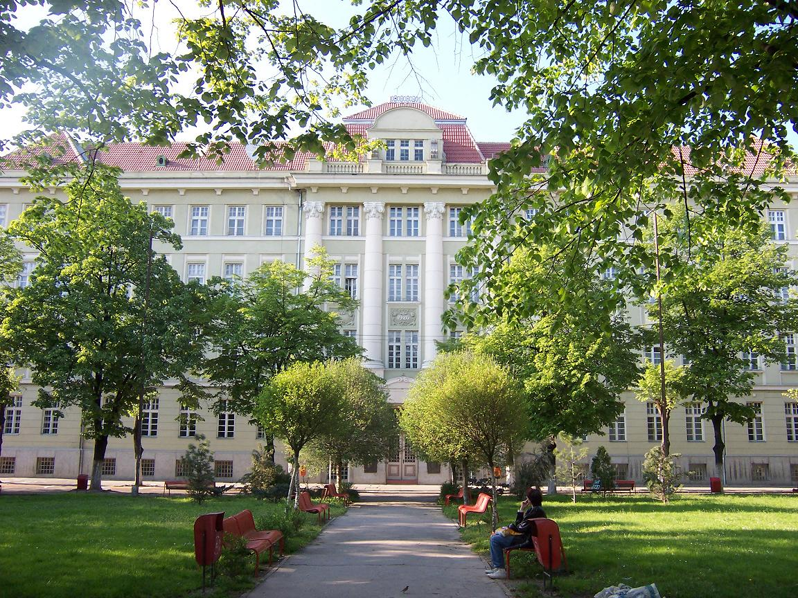 University of Medicine Timişoara